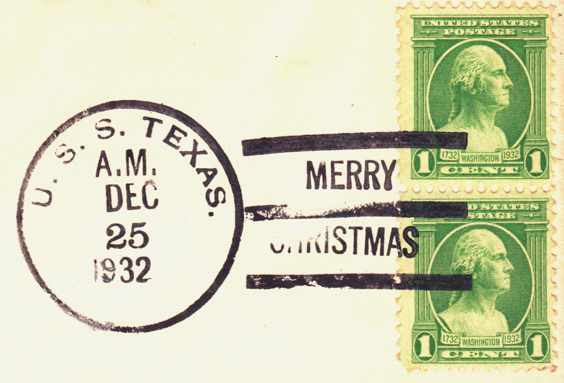 Postmark of the U.S.S. Texas, Christmas Day, 1932, Washington Bi-Centennial year